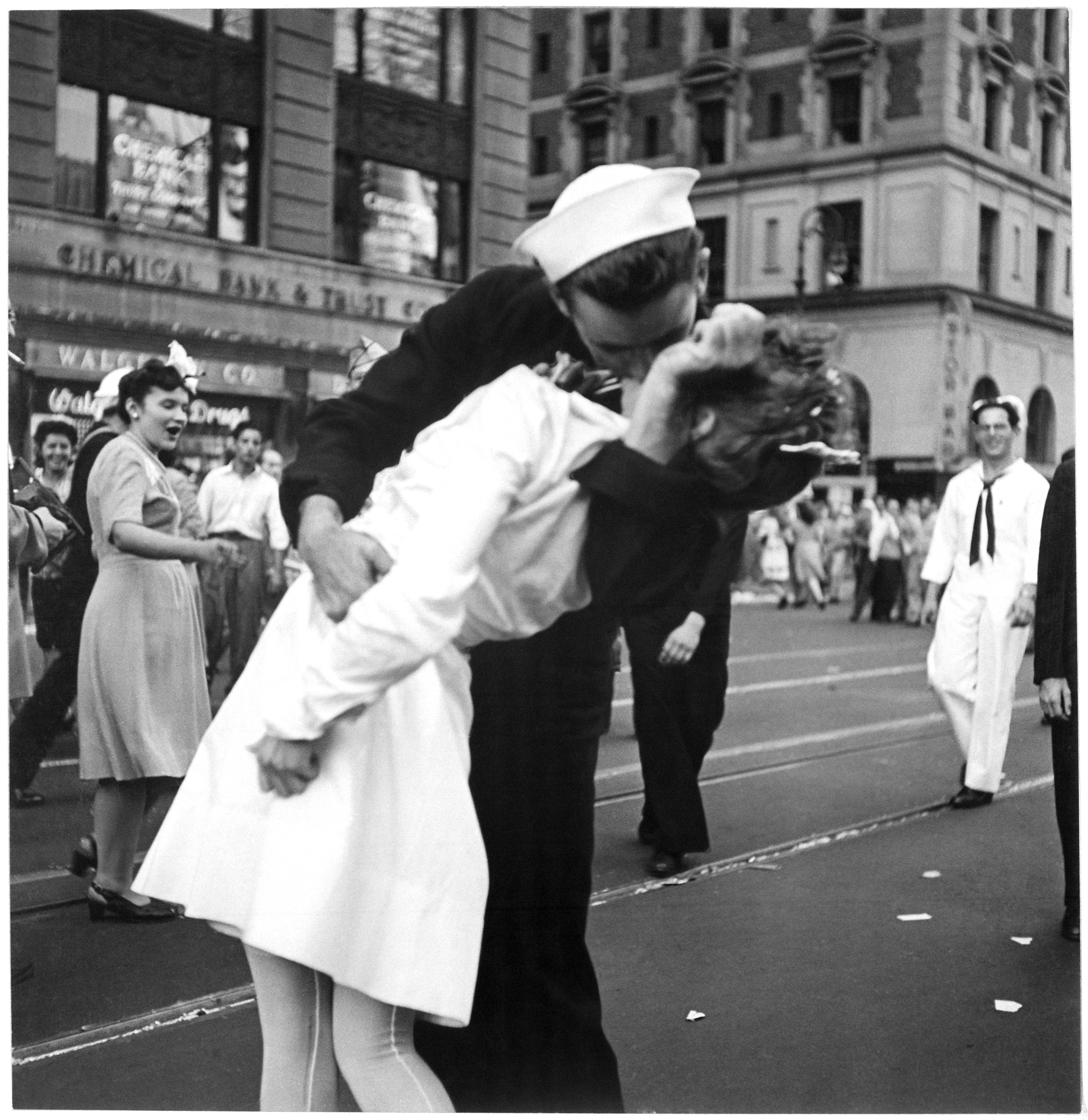 "New York City celebrating the surrender of Japan. They threw anything and kissed anybody in Times Square." National archive number 80-G-377094 Naval Historical Center #520697